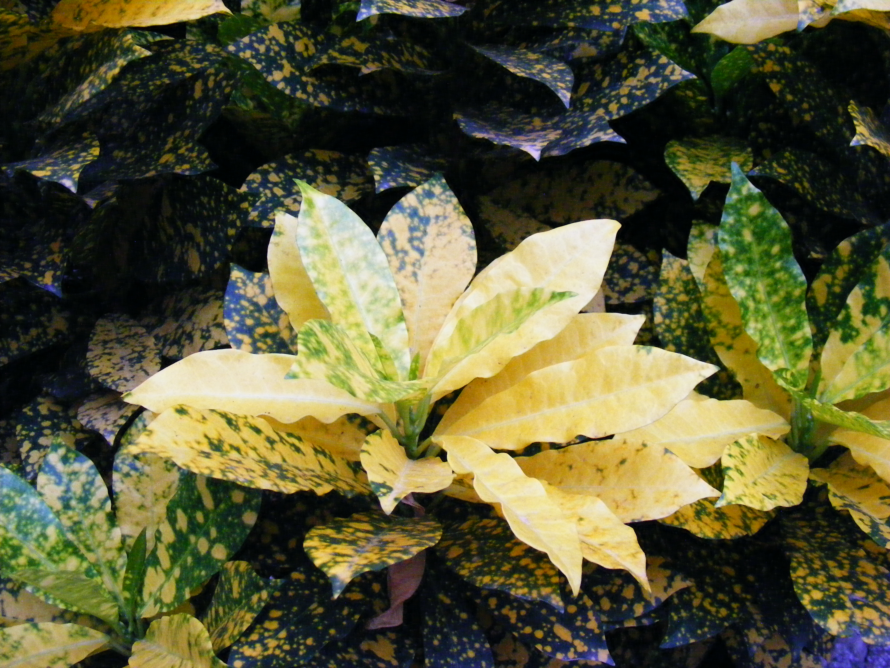 Yellow leaves of Codiaeum variegatum